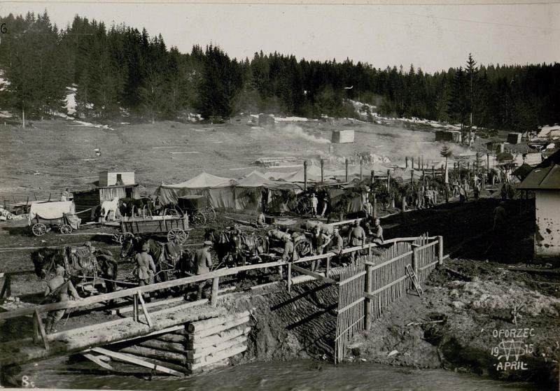 Eastern Front theatre of World War I